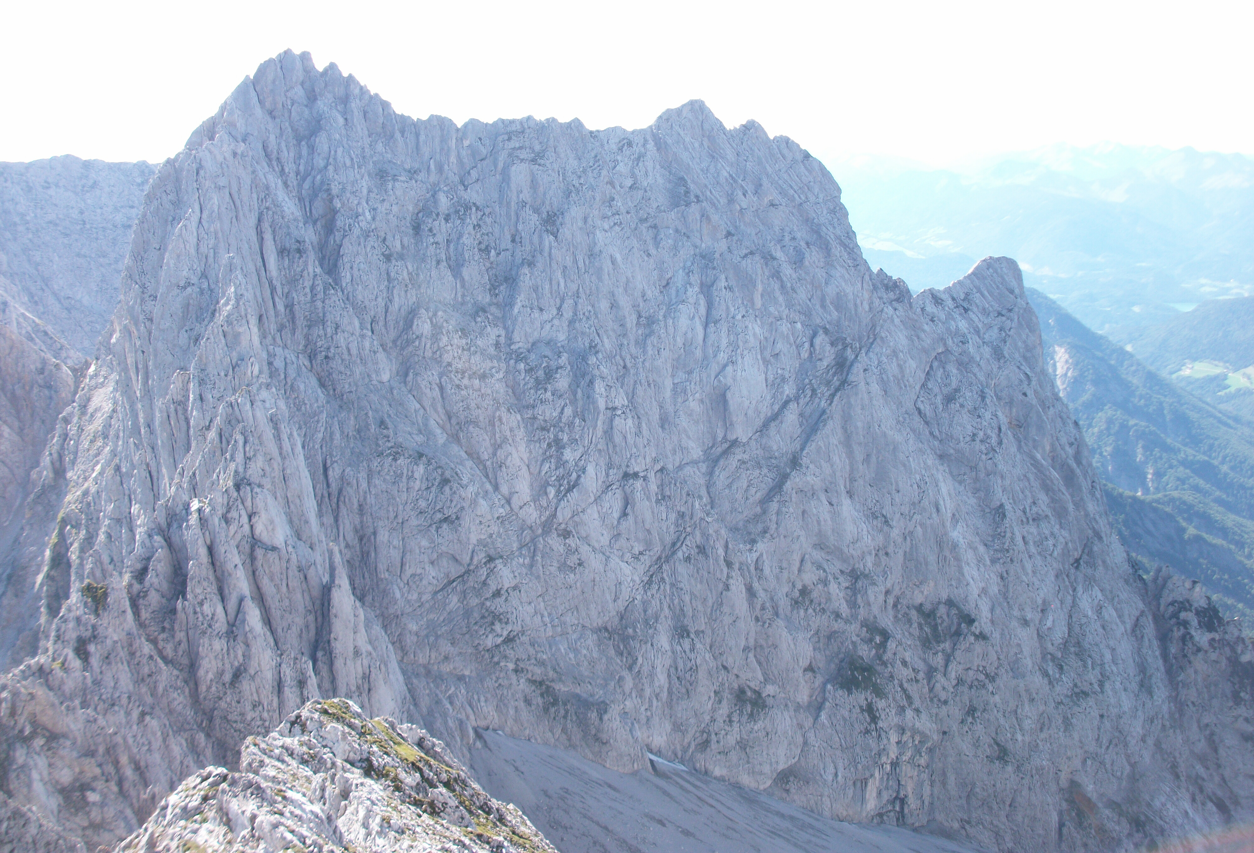 Haltstock from east with Ellmauer Halt, Gamshalt and Kleine Halt